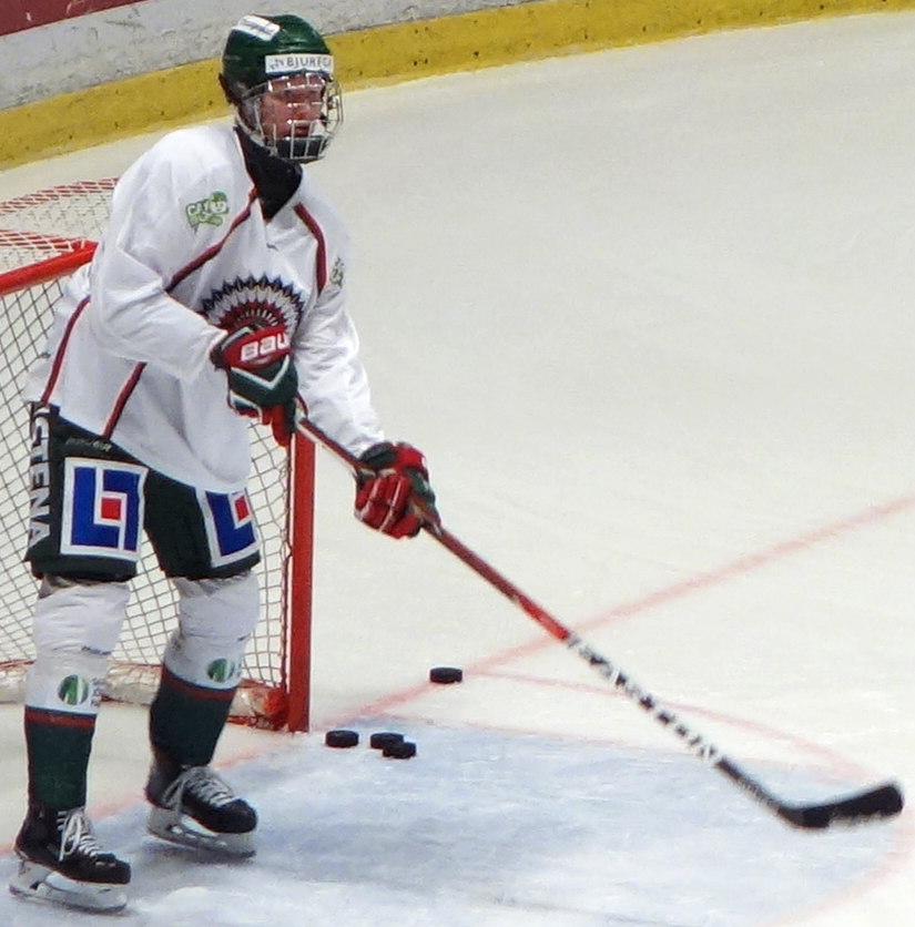 Rasmus Dahlin during warmup before an SHL game against Djurgården, january 29, 2018.